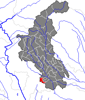 This map shows the area of the Gemeinde (municipality) Laßnitzthal in the Bezirk (district) Weiz, Styria, Austria.